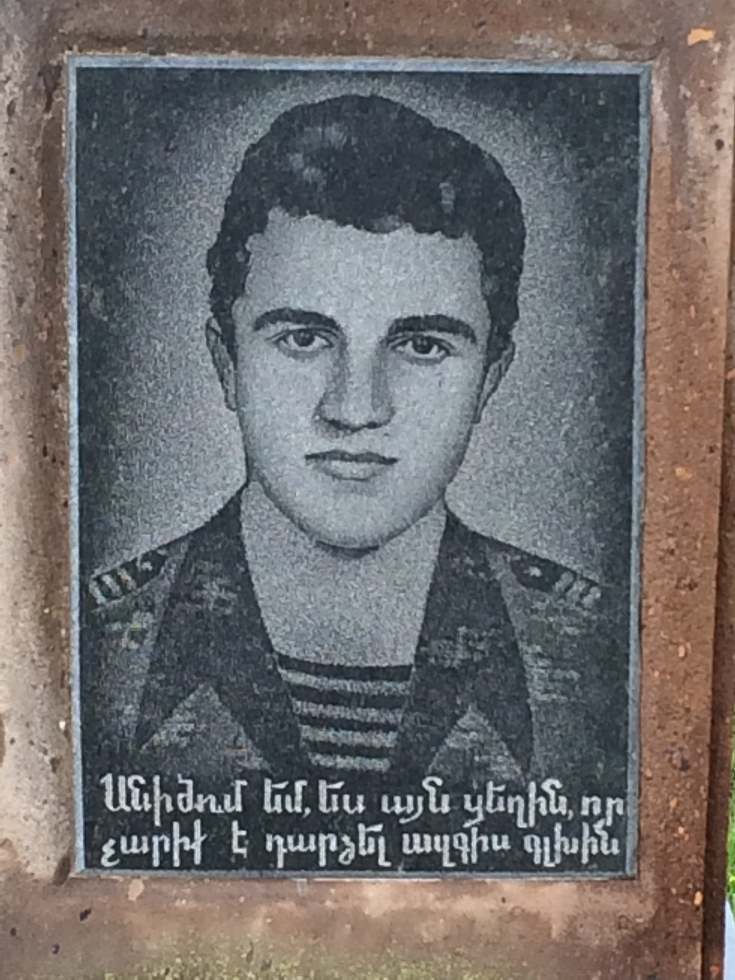 Maralik Cemetery.